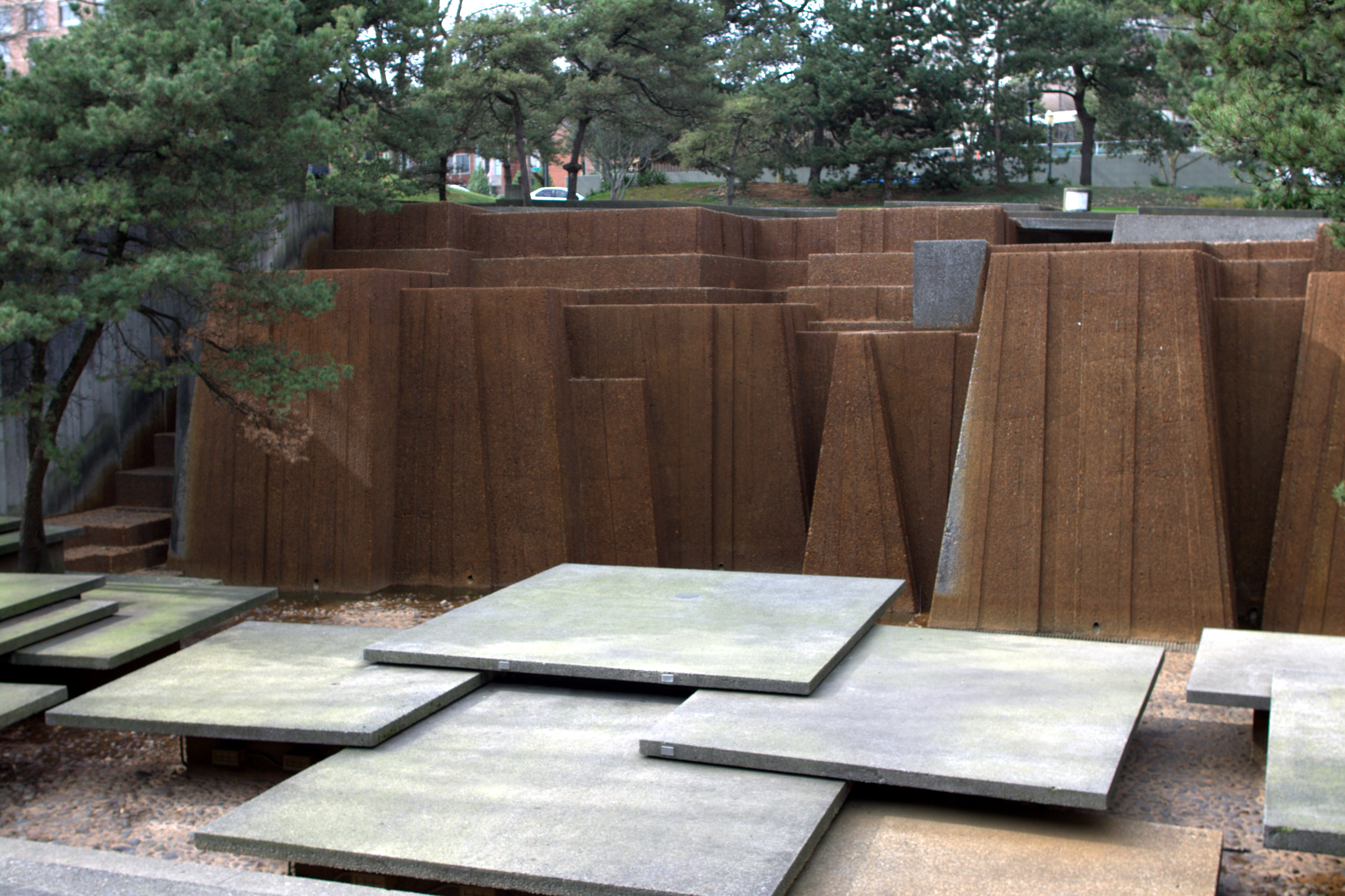 Keller Fountain Park, dry in winter, Portland, Oregon.